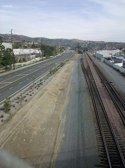 These tracks are the approximate boundary between the California cities of Yorba Linda and Anaheim.